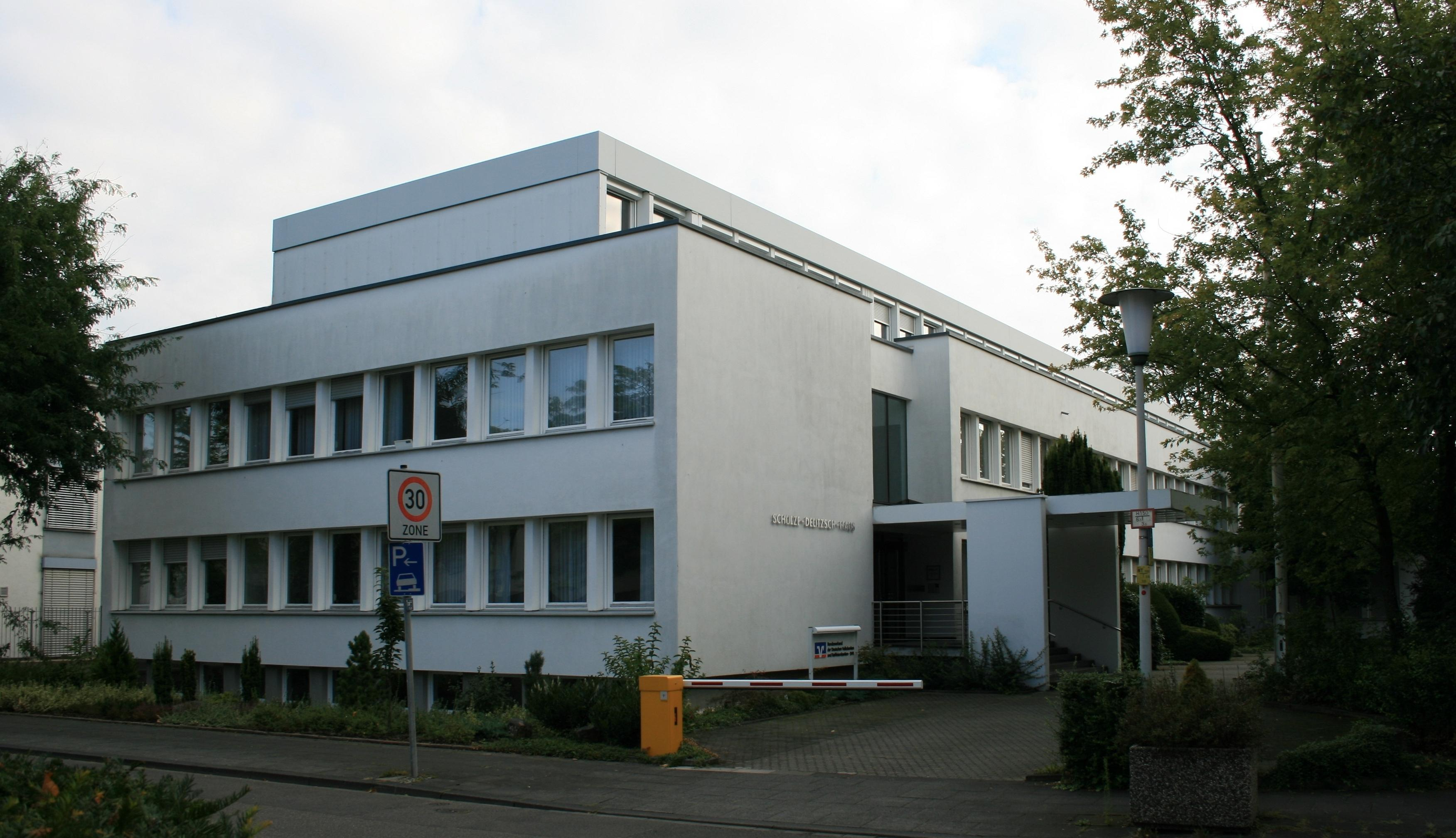 Schulze-Delitzsch-Haus; located in Bonn, Heussallee 5, Germany. Office of BVR (Bundesverband der Deutschen Volksbanken und Raiffeisenbanken/Association of German Cooperative Banks and Raiffeisen Banks)